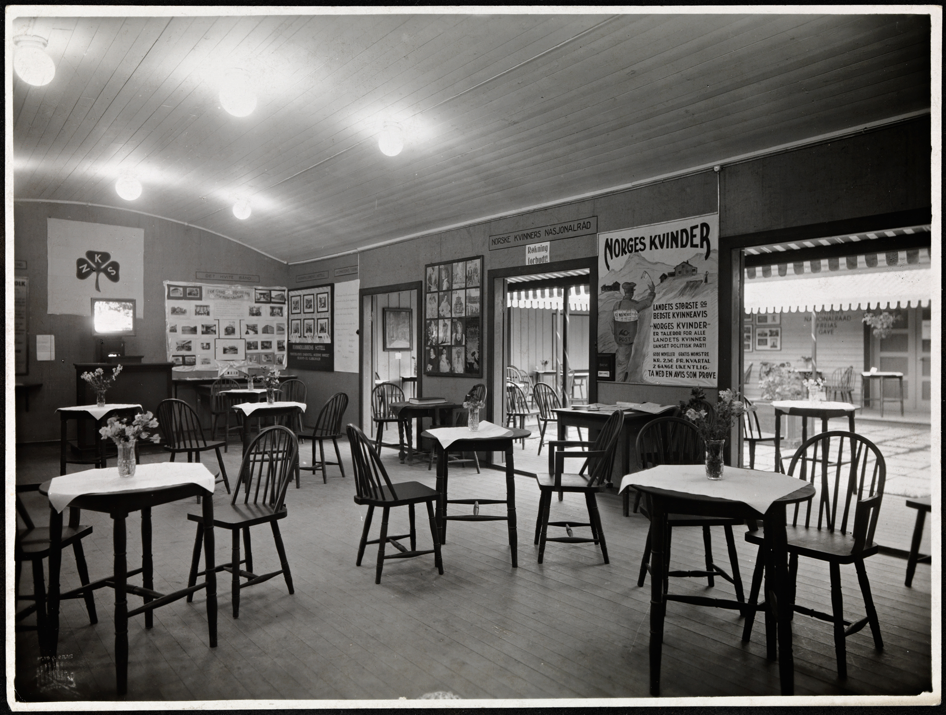 Tittel / Title: NKNs paviljong ved Trondheimsutstillingen, 1930 Dato / Date: 1930 Fotograf / Photographer: Hilfling-Rasmussen Sted / Place: Sør-Trøndelag, Trondheim Eier / Owner Institution: Nasjonalbiblioteket / National Library of Norway Lenke / Link: Bildesignatur / Image Number: blds_04522